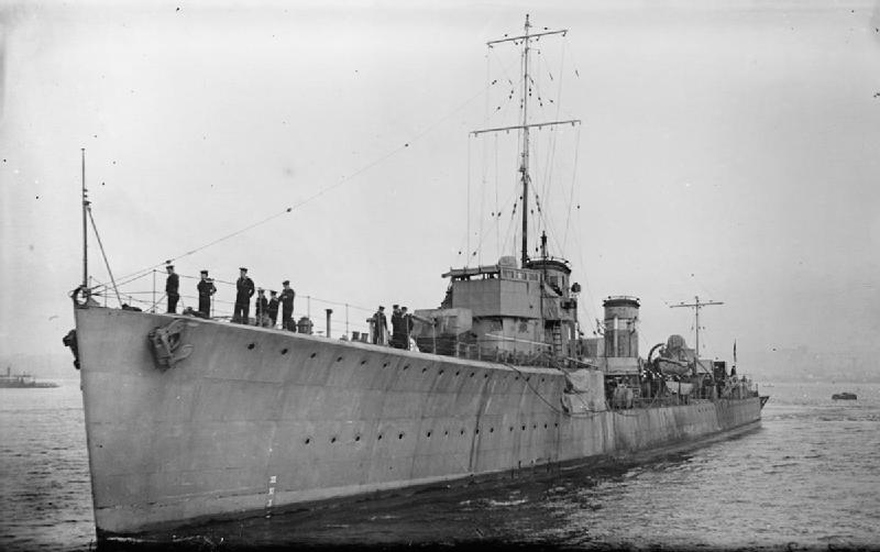 Photograph of British S class destroyer HMS Serene.